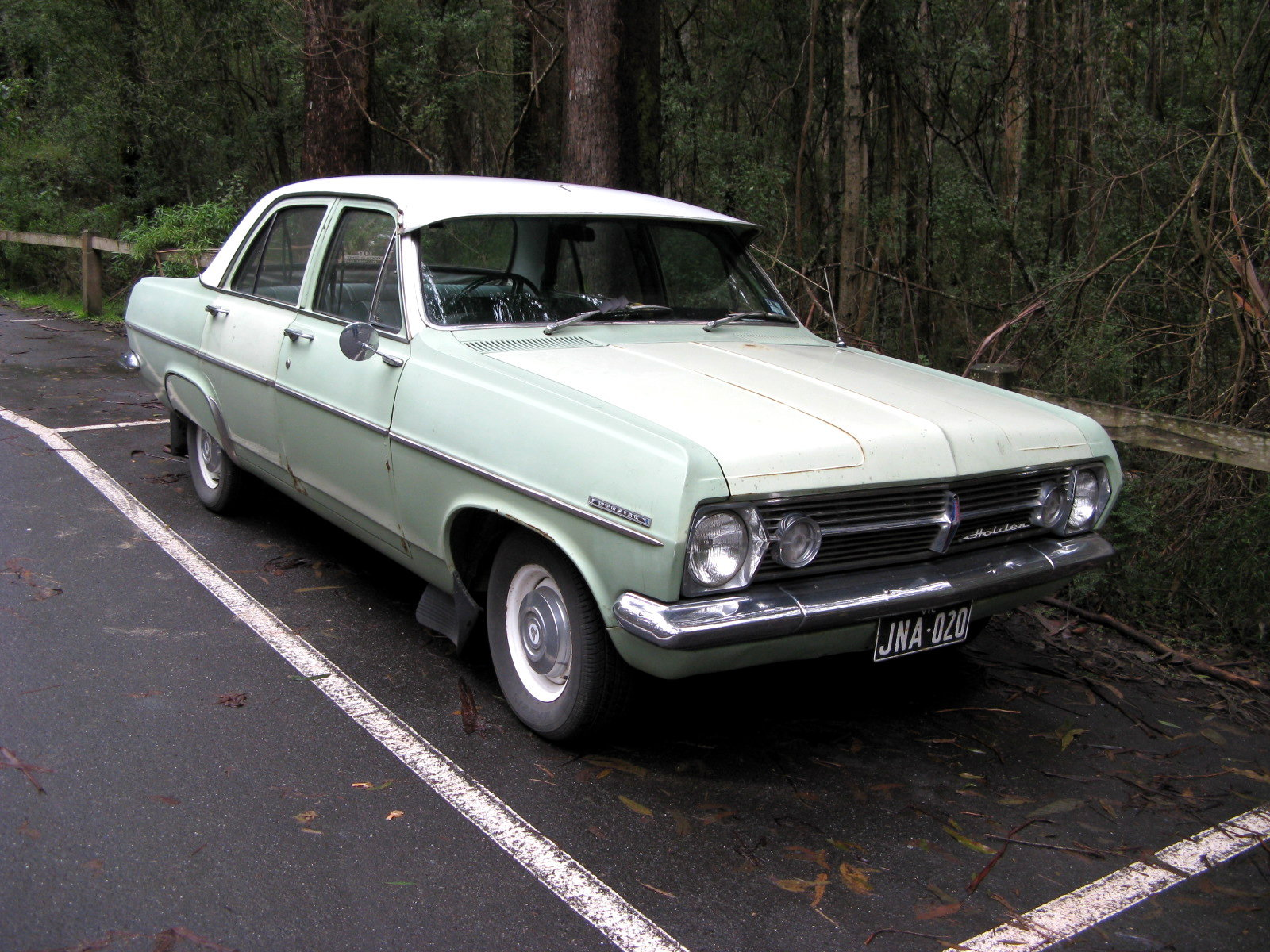 1966-1968 Holden HR Special